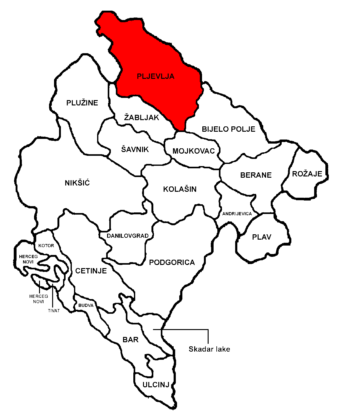 Location of Pljevlja within Montenegro